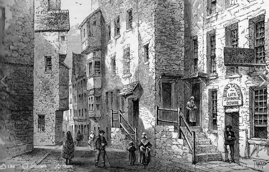 John Dowies Tavern, Liberton Wynd, Edinburgh